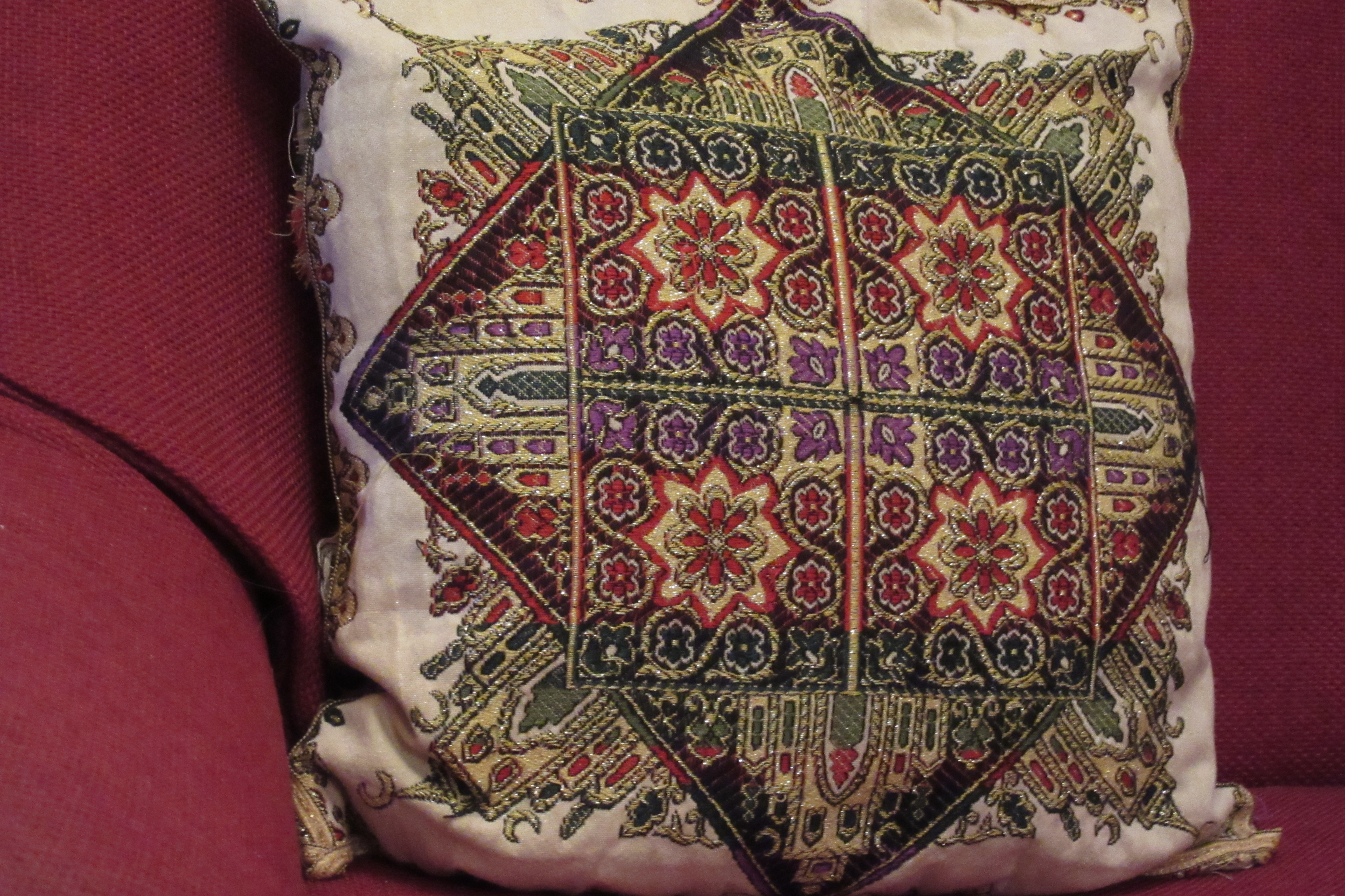 An embroidered Turkish pillow